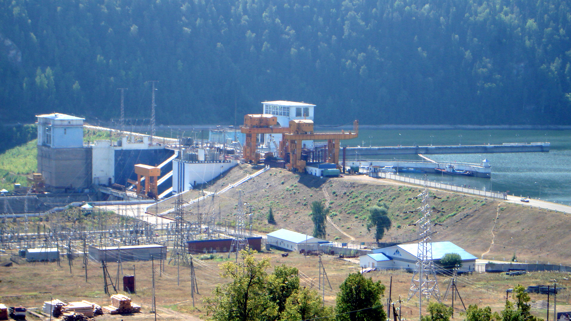 Pavlovskaya dam from left side